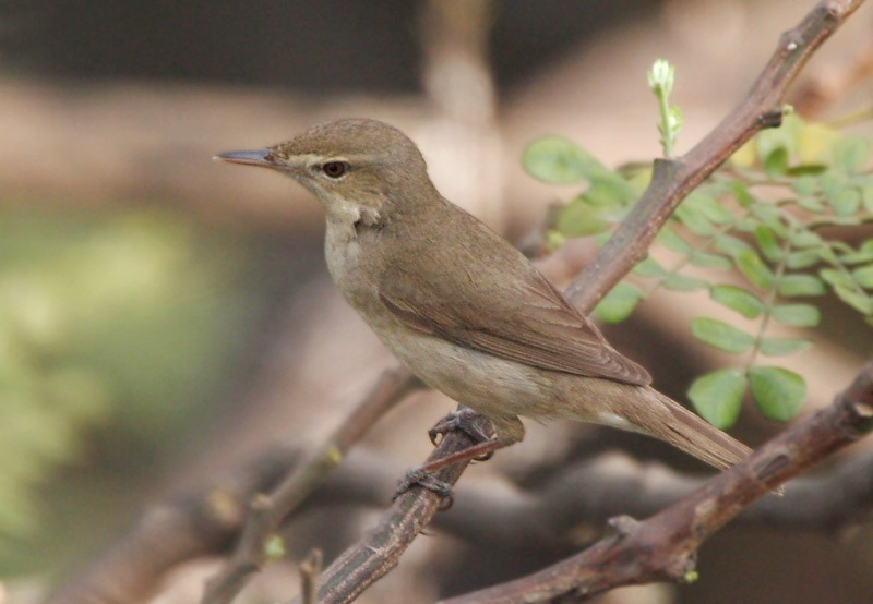 Syke's Warbler Hippolais rama in Kolkata, West Bengal, India.